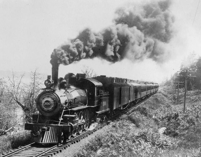 Northern Pacific Class E-5, 4-6-0 locomotive NP 300 (formerly NP 629, later NP 326), pulling the North Coast Limited train of the Northern Pacific Railway Co., possibly on its inaugural journey on April 29, 1900. Photo by George M. Weister of the Angelus Studio, Portland, Oregon. Probably taken beside the track near the Columbia River between Portland and Goble where the train would be put on a specially constructed train ferry, the Tacoma, and be taken across the Columbia R. to Kalama on the Washington side.